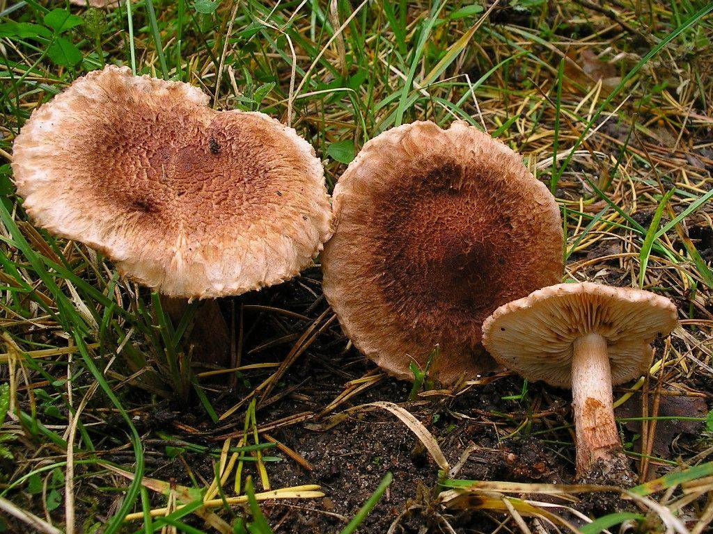 Fruit bodies of the agaric fungus Tricholoma vaccinum. Photographed in Gotland, Sweden.